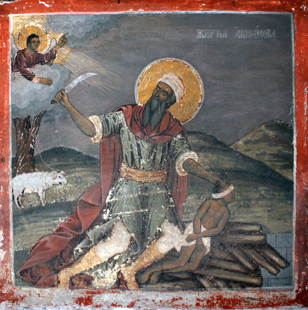 Abraham's sacrifice - a fresco from the Old church of Raduil. Bulgaria